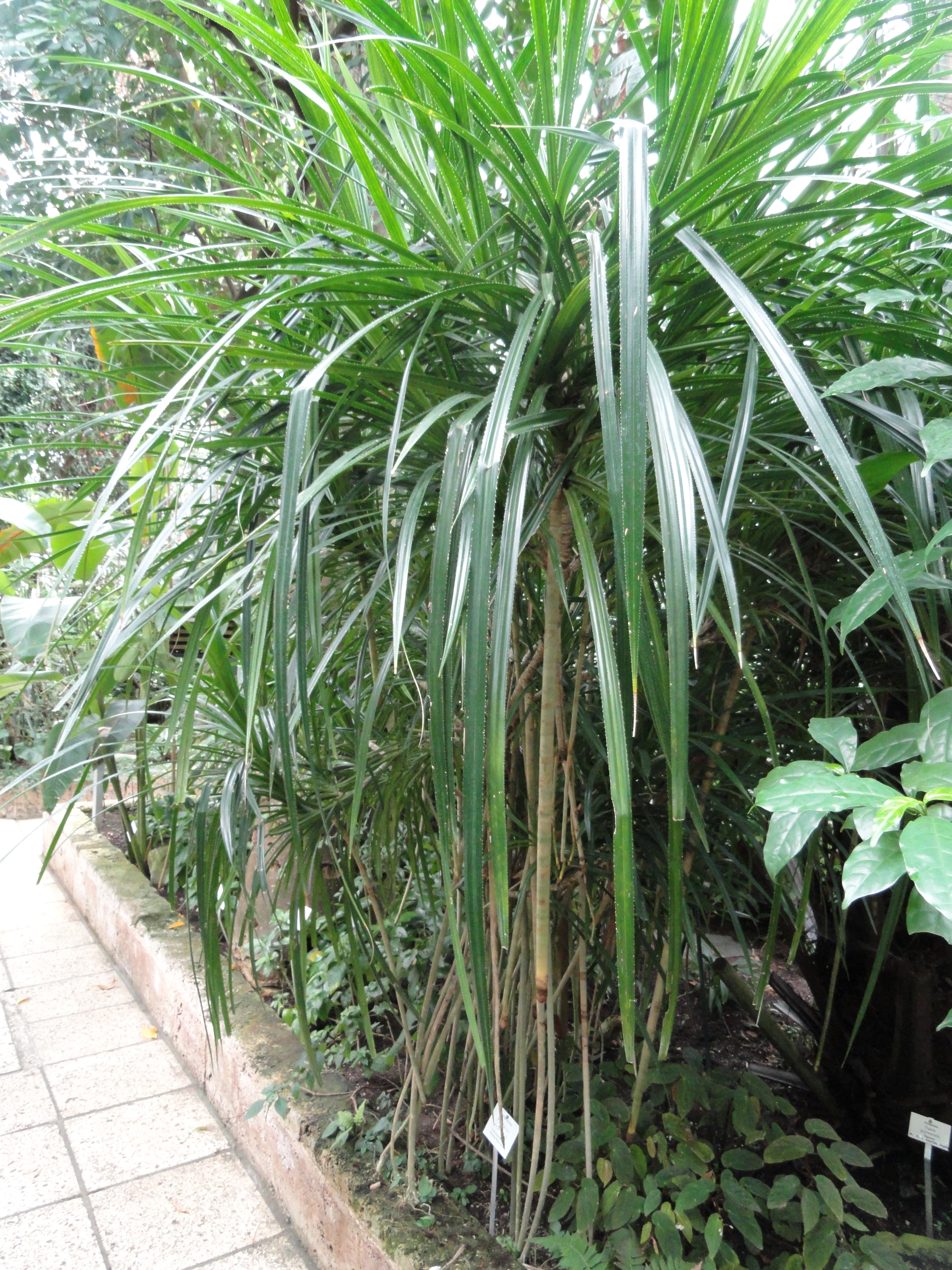 Pandanus pygmaeus specimen in the Botanischer Garten Freiburg, Freiburg im Breisgau, Baden-Württemberg, Germany.